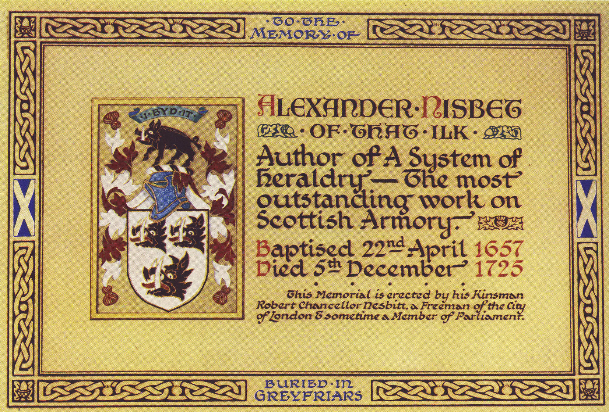 Memorial to Alexander Nisbet, the Herald, in Greyfriars Kirk, Edinburgh, Scotland